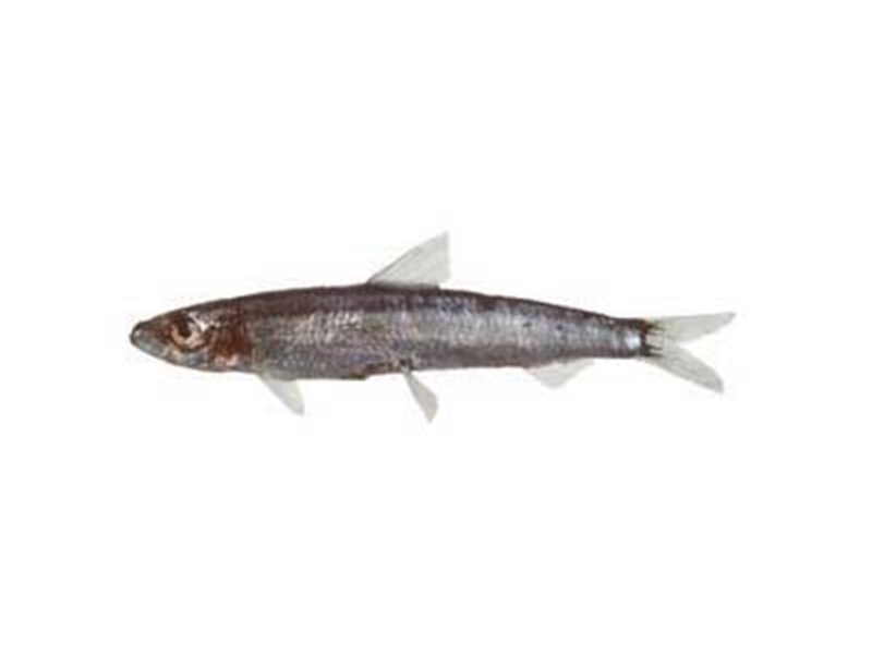 Spratelloides robustus in a white background